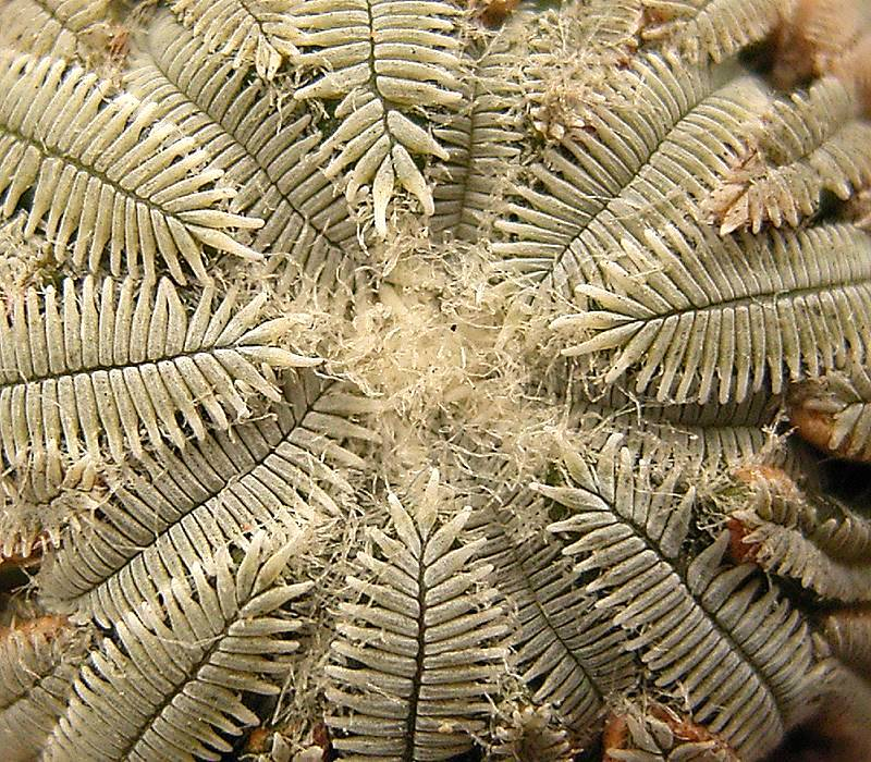 Pelecyphora asseliformis